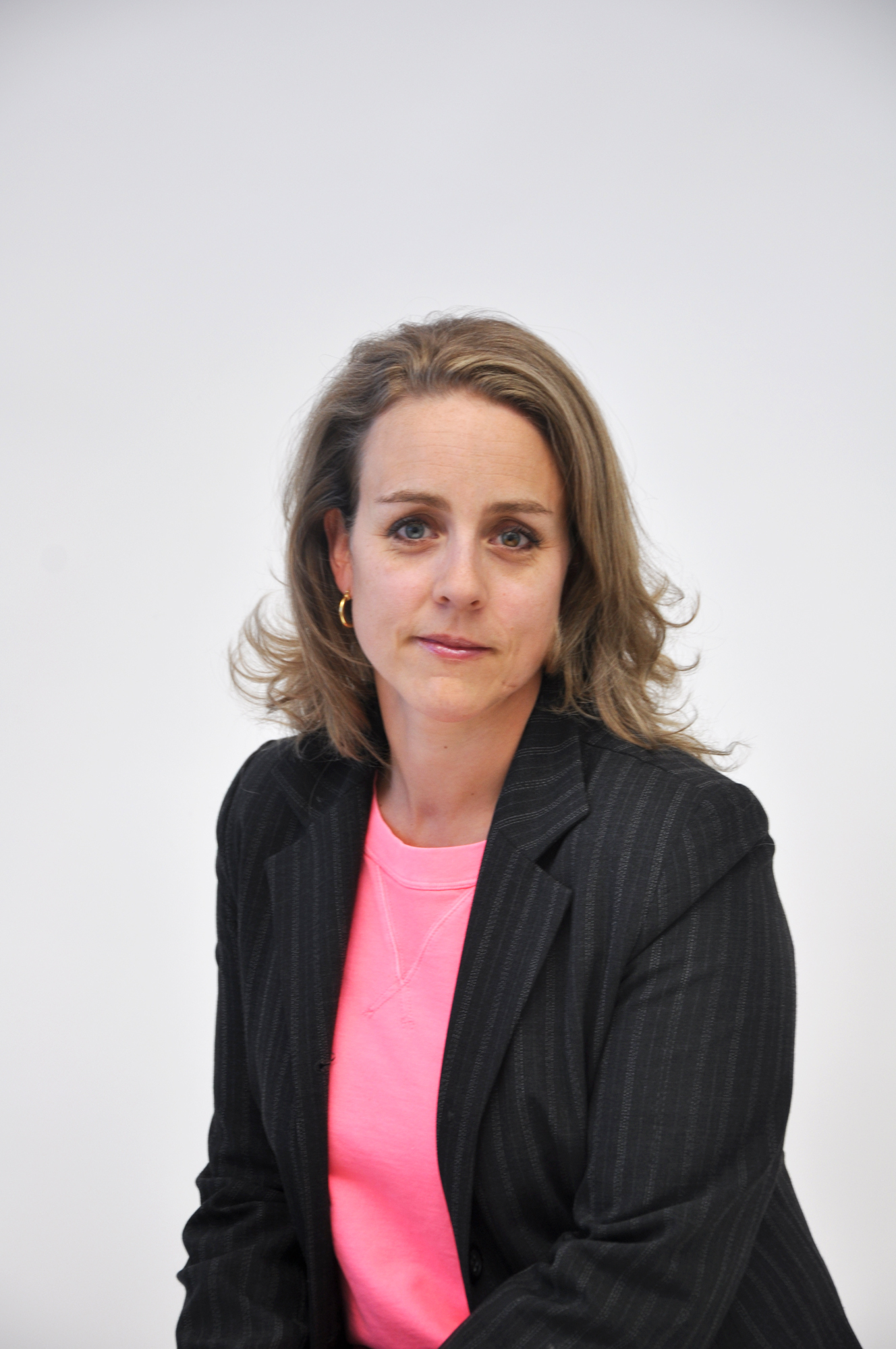 Nicola Green, Artist